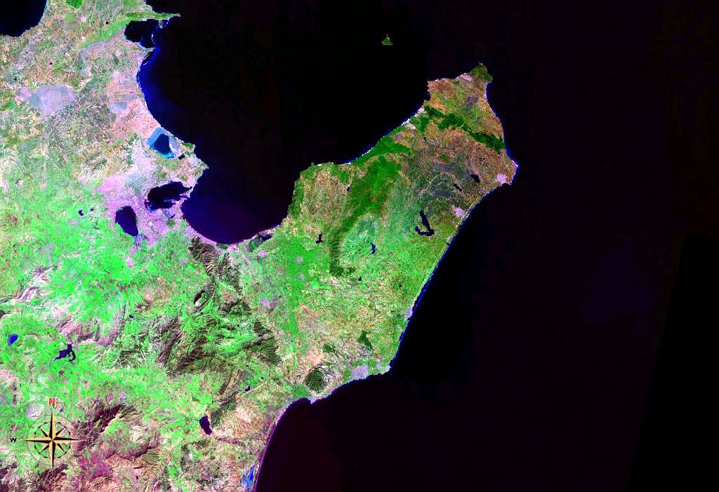 Cap Bon Peninsula in Tunisia. Satellite view.